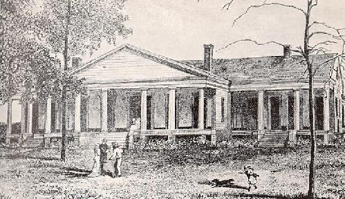 Brierfield Plantation House, Davis Bend, Mississippi; former home of Jefferson Davis